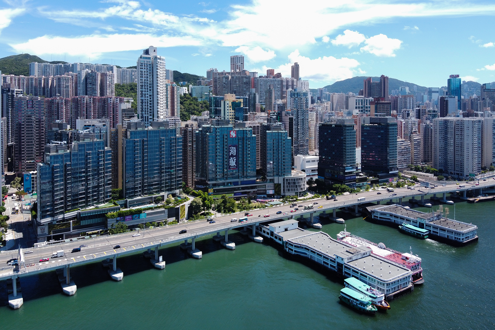 Victoria Harbour, No.133 Java Road